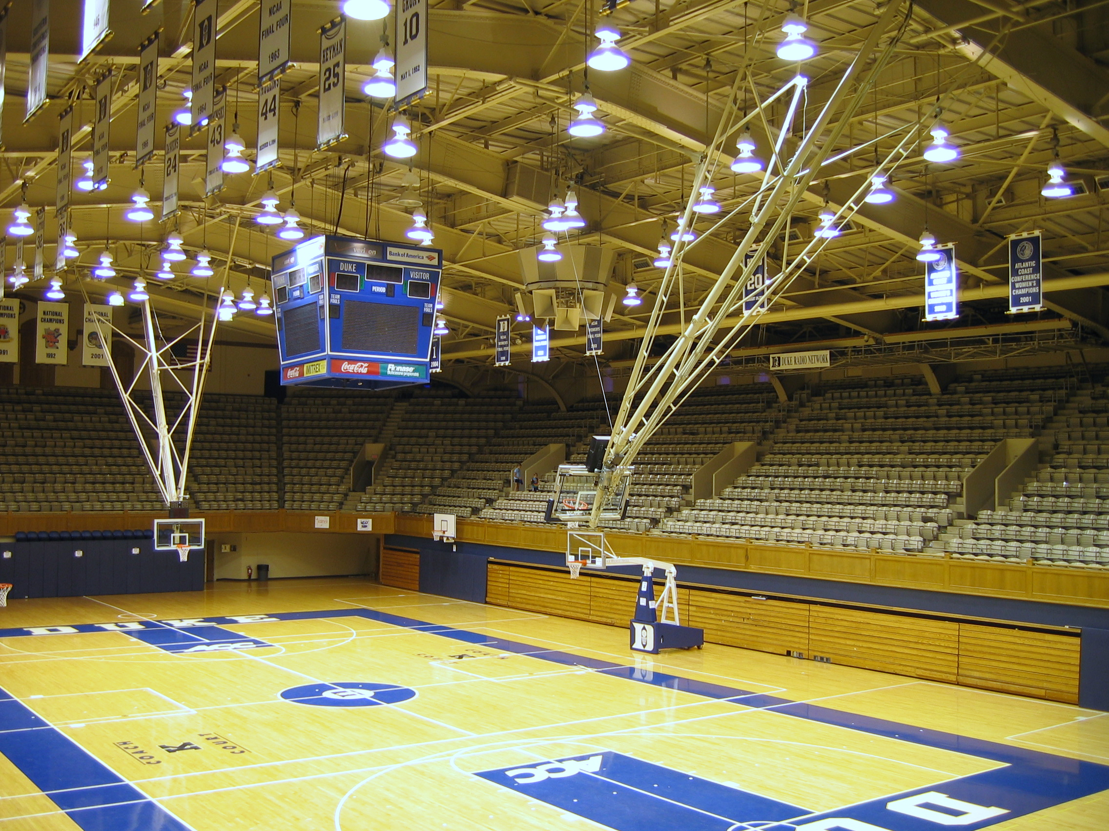 Duke's famous Cameron Indoor Stadium. Summer of 2006.